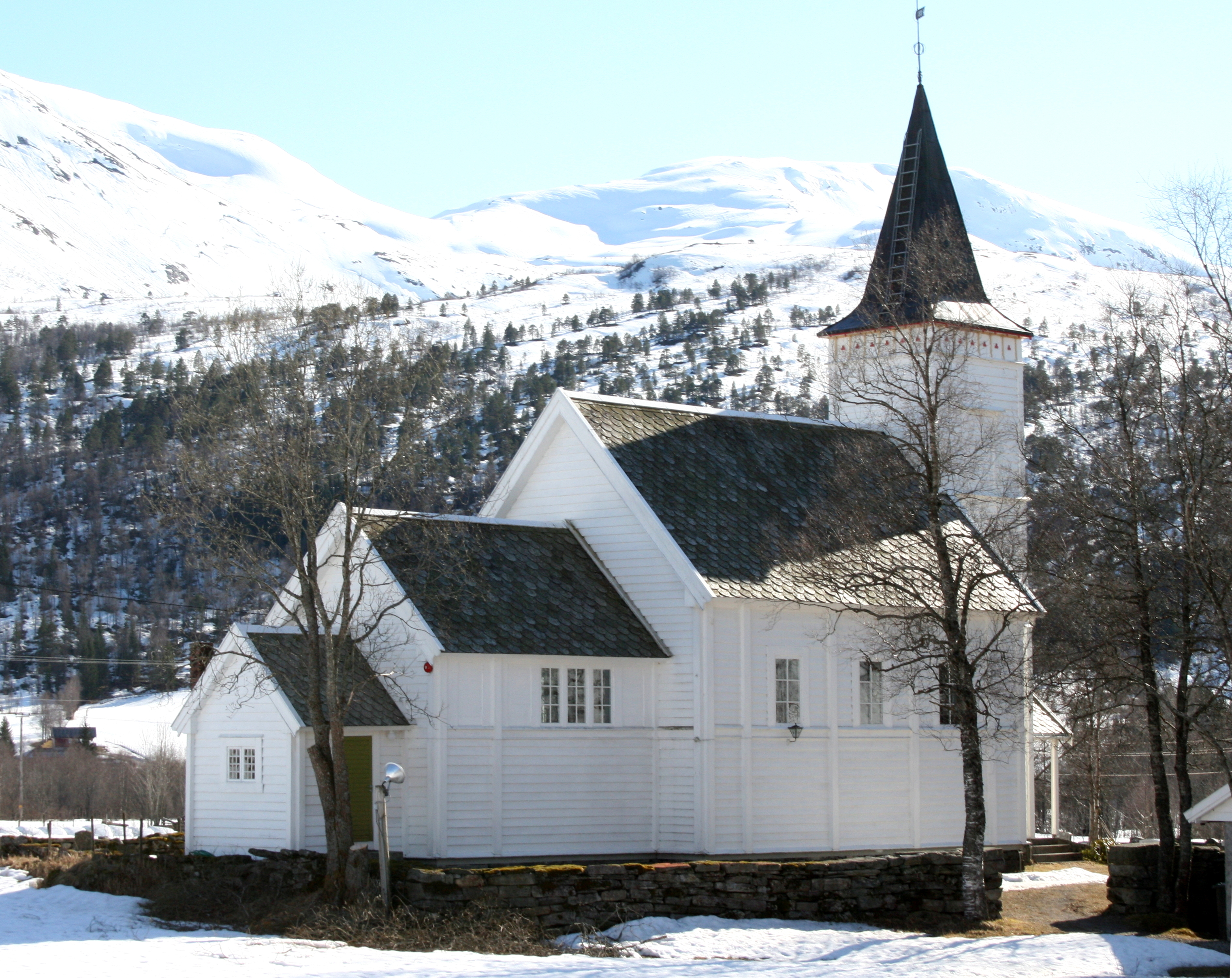 Haukedalen church in Førde kommune, Sogn og Fjordane, Norway.